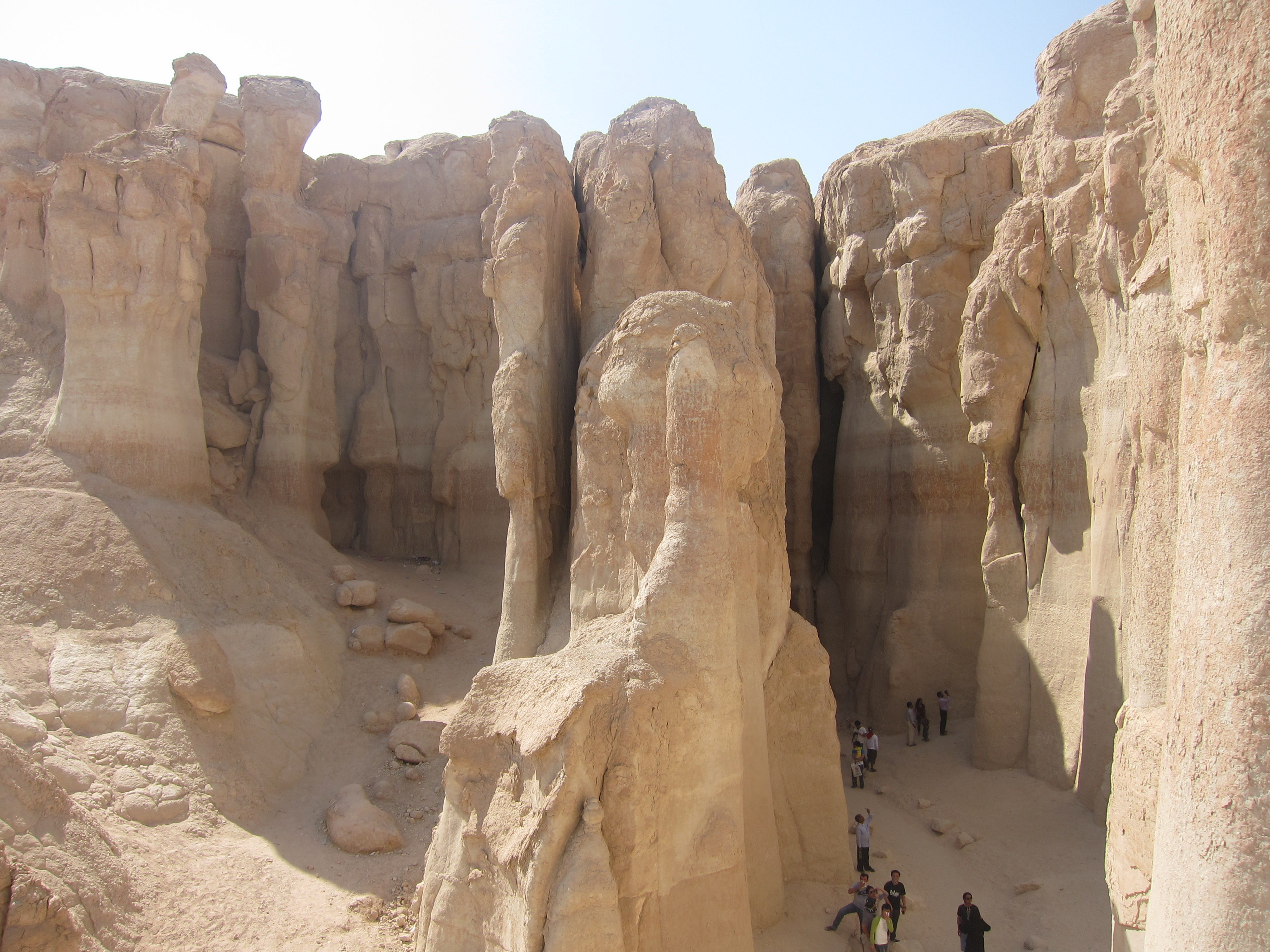 Jabal Al Qara Cave - Al Hassa, Saudi Arabia ജബൽ അൽ ഖാറ ഗുഹ, അൽ ഹസ, സൗദി അറേബ്യ വലിയൊരു മലയുടെ ഉള്ളിലേക്ക് കയറിപോകാവുന്നയവസ്ഥയിലാണ്... ഏതെങ്ങിലും ഒരു ദിശയിലേക്ക് ഗുഹപോലെ രൂപപ്പെട്ട ഒന്നല്ല... ഗുഹയുടെ ഉള്ളിൽ കൈ വഴികൾ പോലെ വളരെയധികം വഴികൾ രൂപപ്പെട്ടിട്ടുണ്ട്... അതിനാൽ തന്നെ ഗുഹയുടെ ഉള്ളിൽ മുഴുവനായും പോയികാണുക എളുപ്പമല്ല... പോകുന്ന വഴിയിൽ തന്നെ ചിലയിടങ്ങളിൽ, എവിടെയെങ്ങിലും അള്ളിപിടിച്ച് കയറിപോകുകയും ചിലപ്പോൾ ഊഴ്ന്നിറങ്ങിപോകേണ്ടിയും വരും... പ്രകാശവും ഇല്ലാത്തയവസ്ഥയാണ്... ചിലയിടങ്ങളിൽ മുകളിൽ നിന്ന് ഭൂമി പിളർന്ന് ചെറിയ ദ്വാരത്തിലൂടെ സൂര്യപ്രകാശവും ഗുഹയിലേക്കെത്തുന്നുണ്ട്... ഗുഹയുടെ തുടക്കഭാഗങ്ങളിൽ ലൈറ്റുകളും ഘടിപ്പിച്ചിട്ടുണ്ട്... ഈ മലയുടെ ഓരോ ഭാഗവും പ്രകൃതിയുടെ വികൃതിയാണ്...